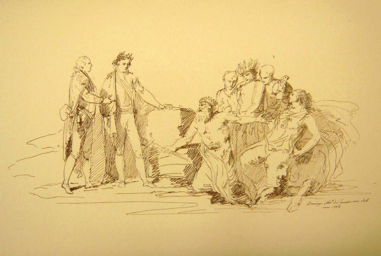 Drawing LI, in the Álbum do Palácio de Arroios (Arroios Palace Album), Lisboa, Instituto de Alta Cultura, 1956. To the left, D. Rodrigo de Sousa Coutinho; to his right, Prince D. João; the allegorical theme to the right symbolises the Portuguese Empire - Neptune holds his hand out to the female figure, Europe; on their feet, Africa, America, and Asia - the motif could've been inspired on the creation of the Maritime, Military, and Geographical Royal Society (Sociedade Real Marítima, Militar e Geográfica).